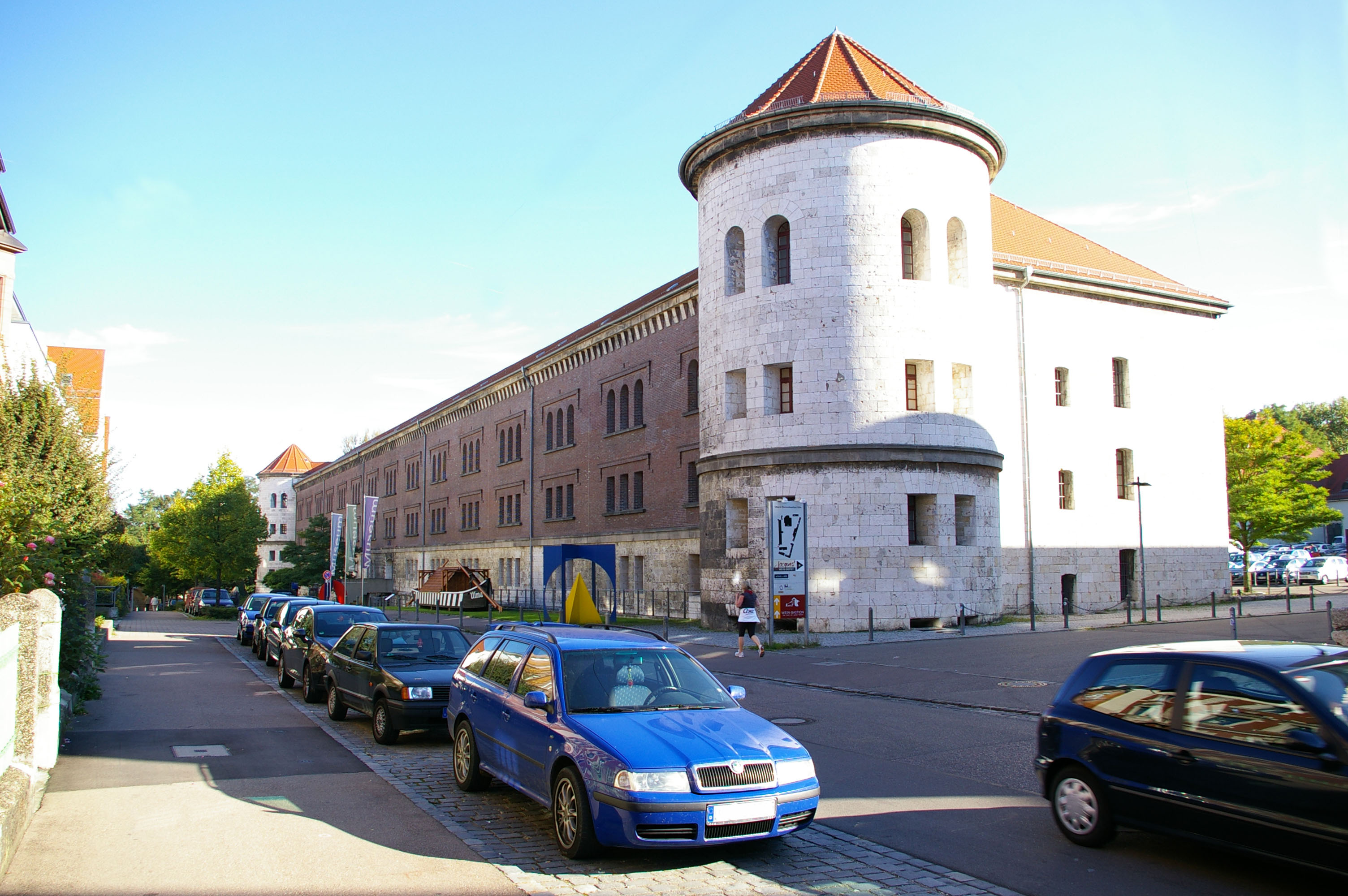 Upper Danube bastion of the Bundesfestung Ulm